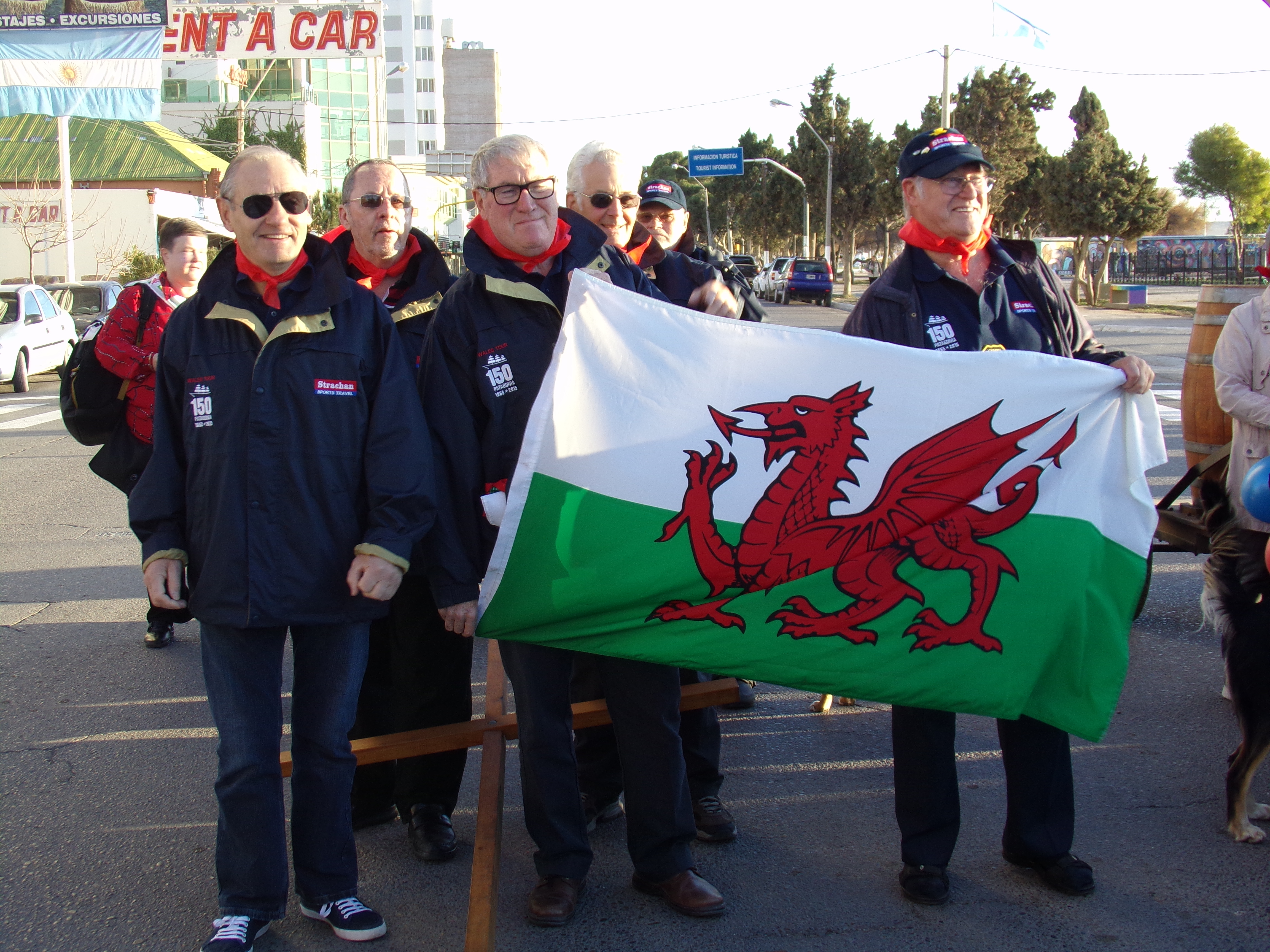 Barrel race joins the monument to the Welsh Woman with Punta Cuevas. There are two teams. Blue team represents the natives (Tehuelches) and Red team represents the Welsh.